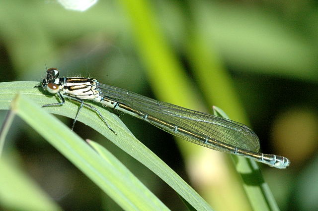 Picture taken in Commanster, Belgian High Ardennes . Species: Coenagrion puella female